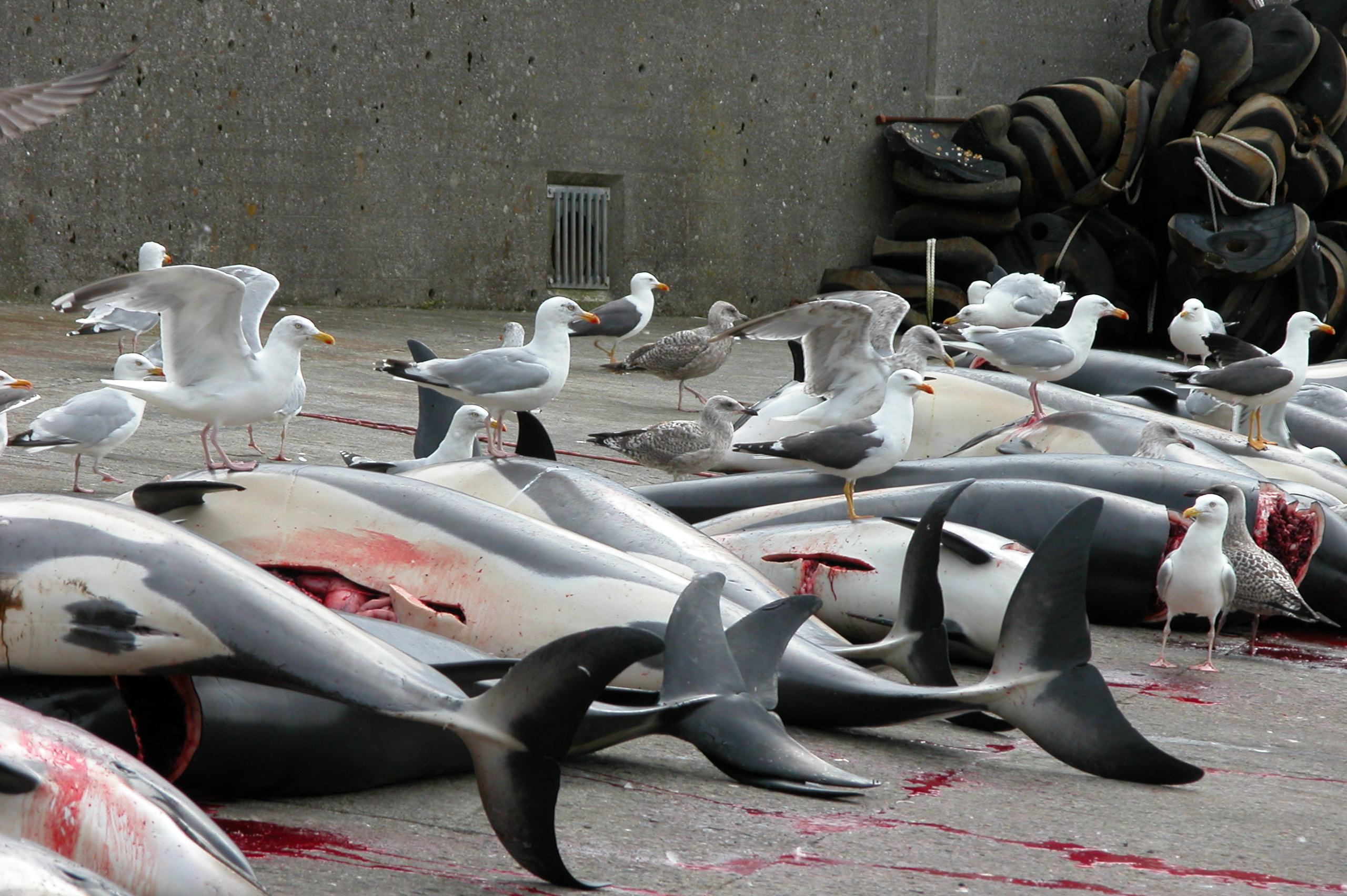 Whaling in the Faroe Islands